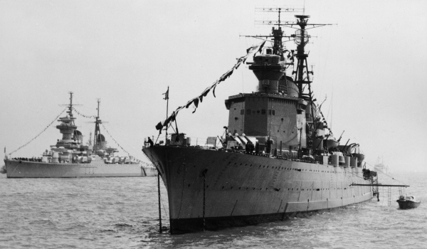 The Swedish cruiser HMS Göta Lejon during Coronation Review at Spithead, 1953. In the background, a Soviet cruiser of Sverdlov class.